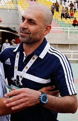 Abdollah Veisi